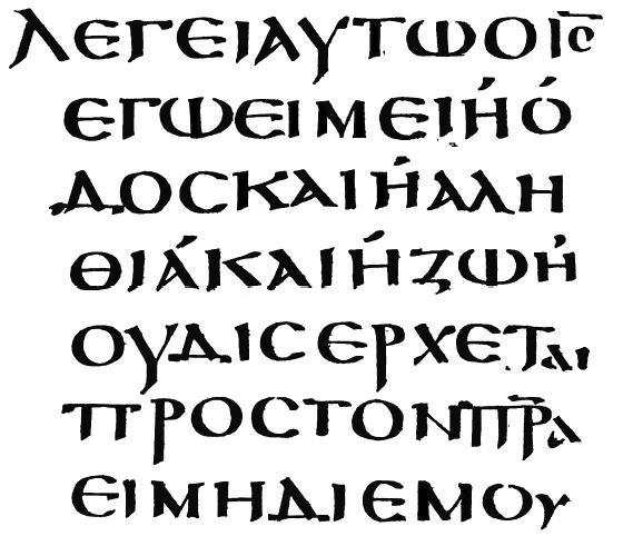 Text from Gospel of John 14,6